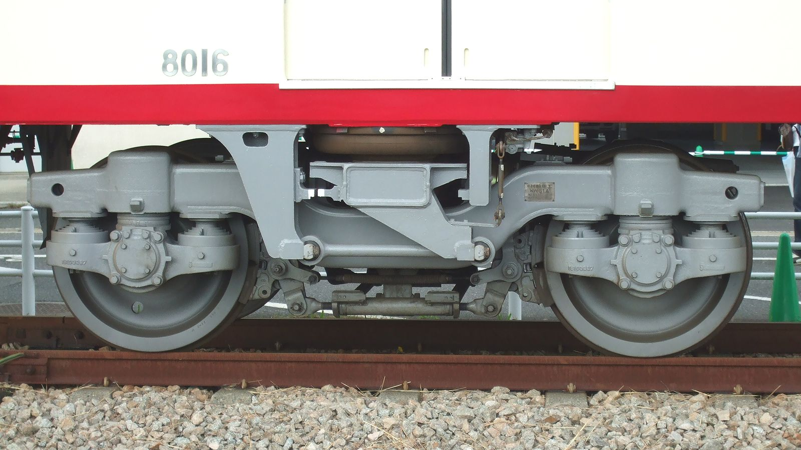 truck manufacturer:Kawasaki Heavy Industries truck type:KW61A Car type and number:Nishitetsu EMU type8000 ku8016 Place:at Chikushi Railway Yard, Chikushino, Fukuoka, Japan.